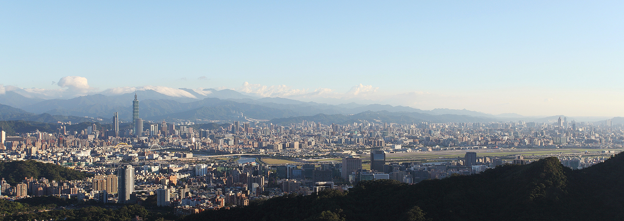 Taipei, Taiwan landscape skyline in 2018